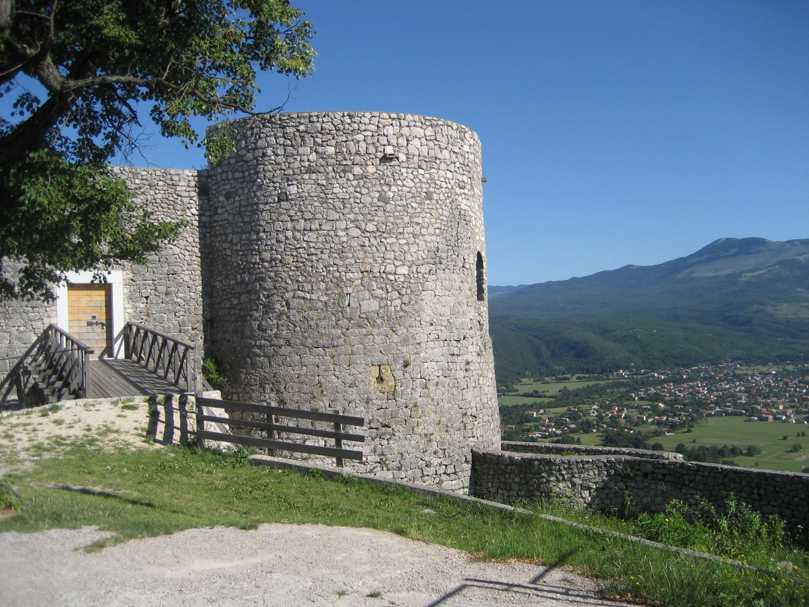 Castle Grobnik, Croatia